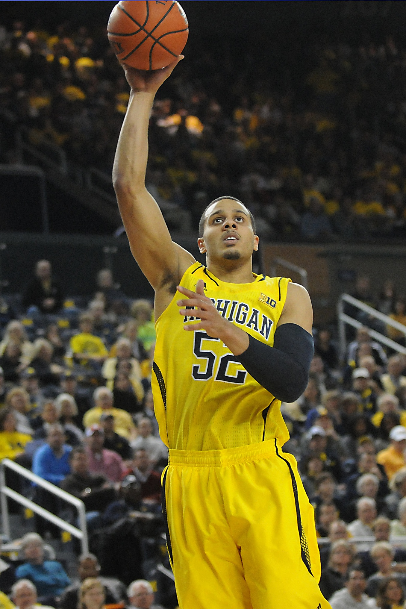 Jordan Morgan of the w:2012–13 Michigan Wolverines men's basketball team